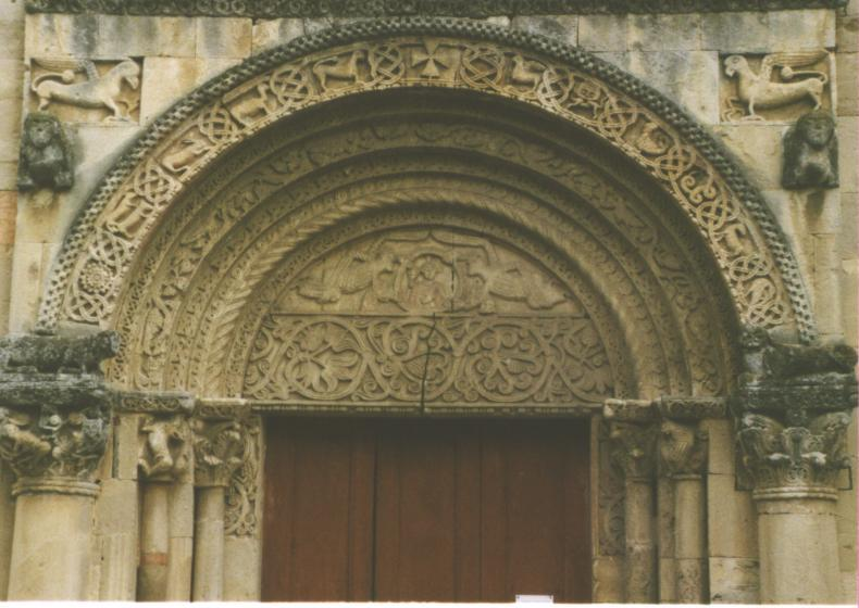 Romanic Abbey of Santa Fede in Cavagnolo (province of Torino, Piedmont, Italy)